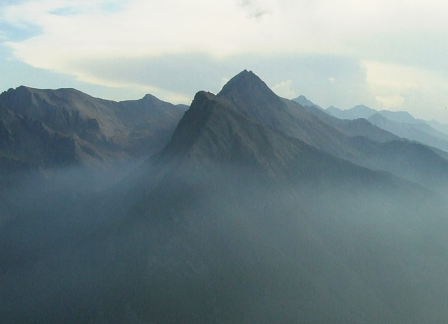 Monte Albergian seen from Colle delle Finestre (I) Picture taken and edited by user Idefix september 2006